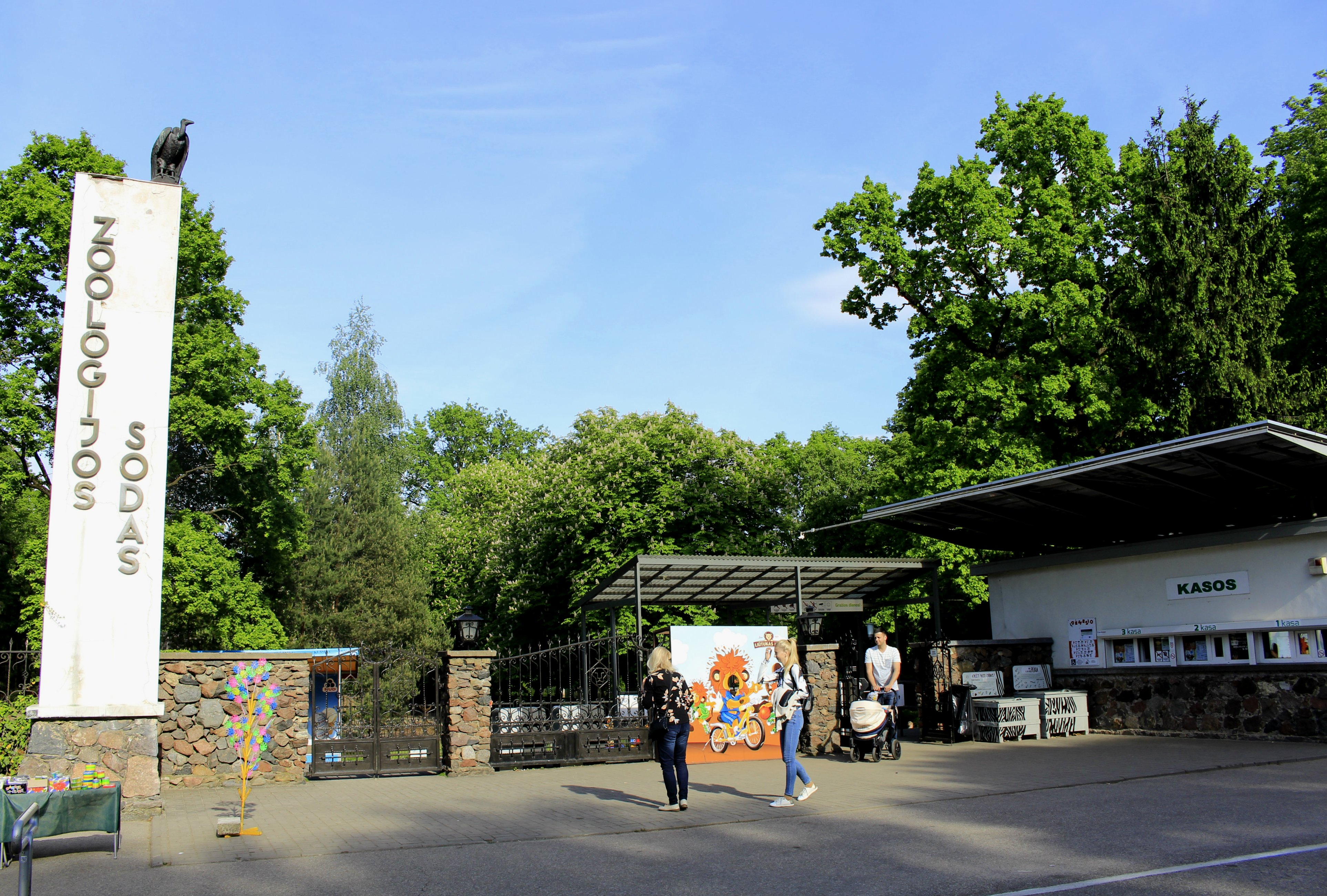 Entrance to Lithuanian zoo